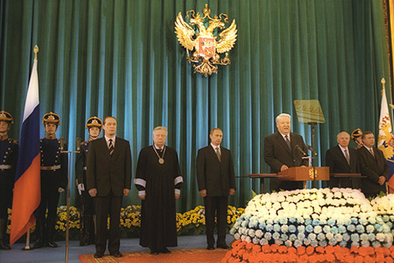 ST ANDREW HALL IN THE GRAND KREMLIN PALACE, MOSCOW. The inauguration of President Vladimir Putin. Speech by Boris Yeltsin, the first President of Russia.